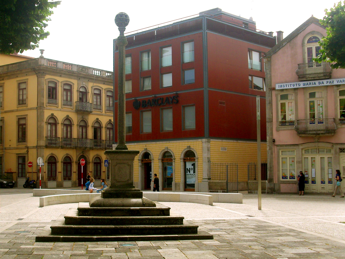 Pillory of Póvoa de Varzim from 1514. national monument.